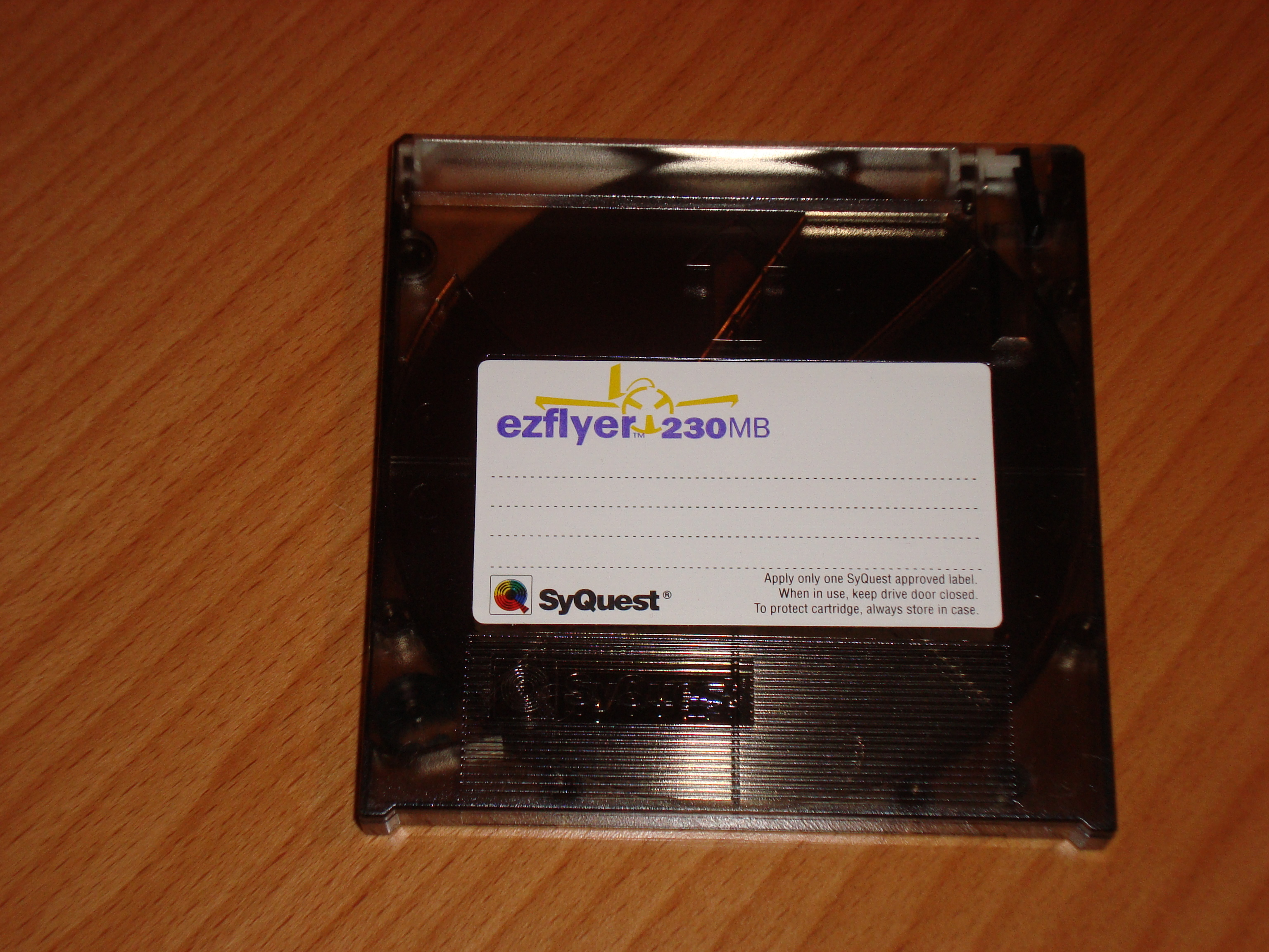 SyQuest EZFlyer 230 Cartridge. 230 MB 3.5 inch magnetic removable cartridge (Winchester technology) for the SqQuest EZFlyer 230 drive.